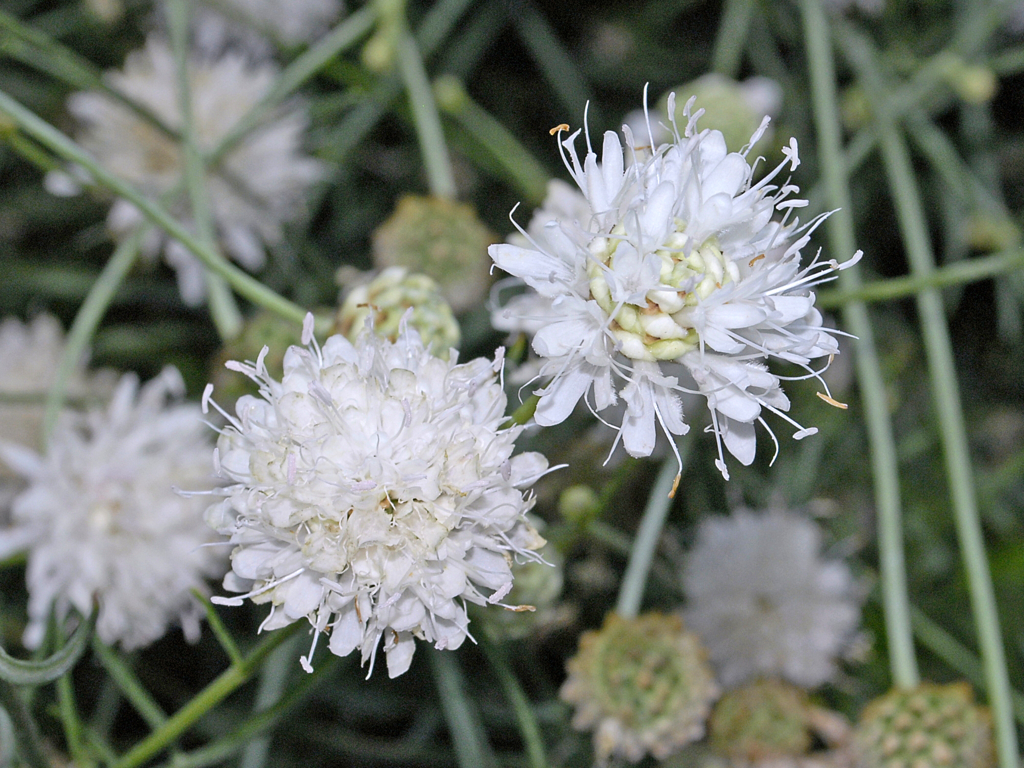 Flowers of Cephalaria leucantha at the Civico Orto Botanico di Trieste